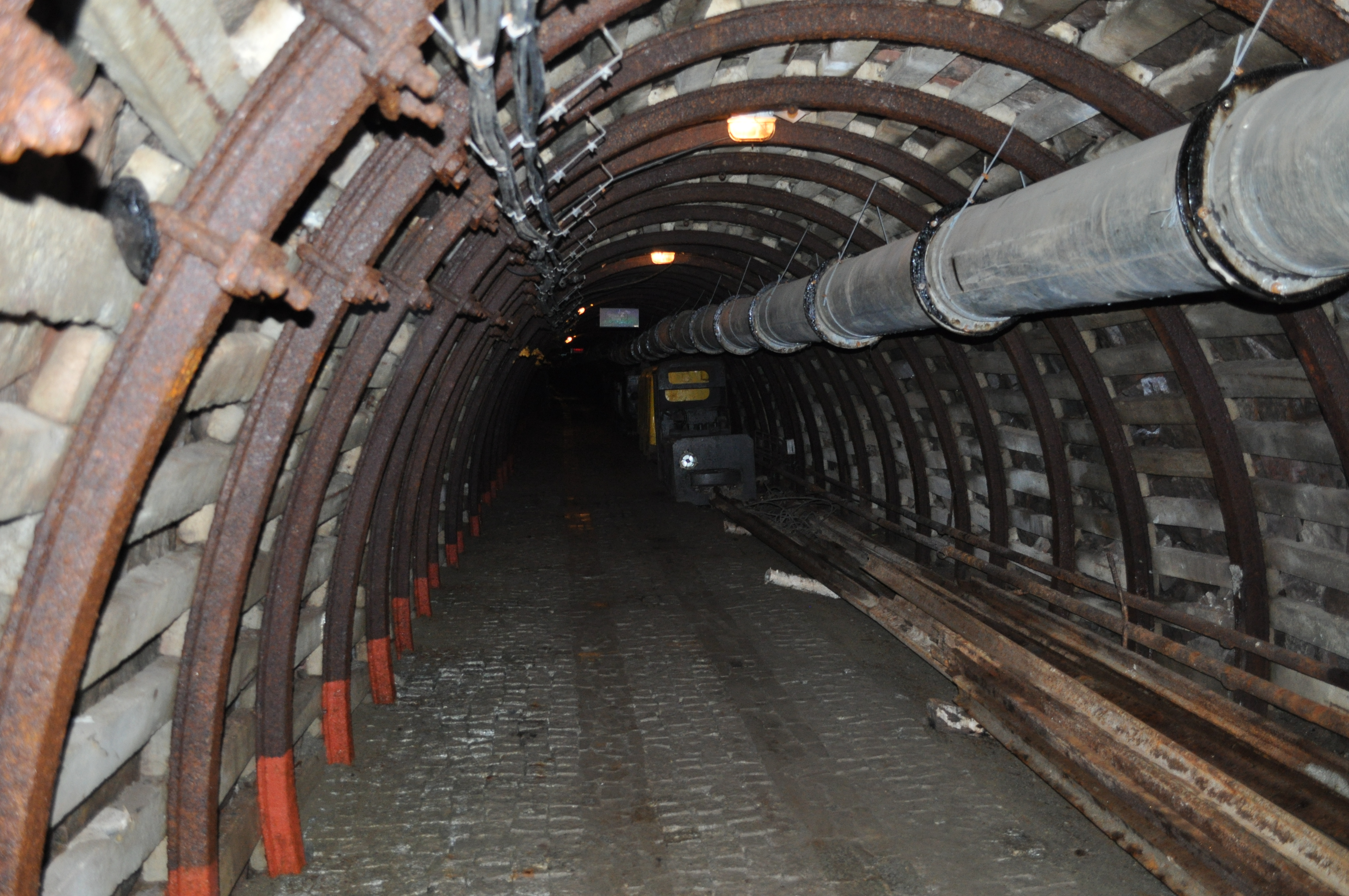 Mines in Kowary - one of tunnels, Poland